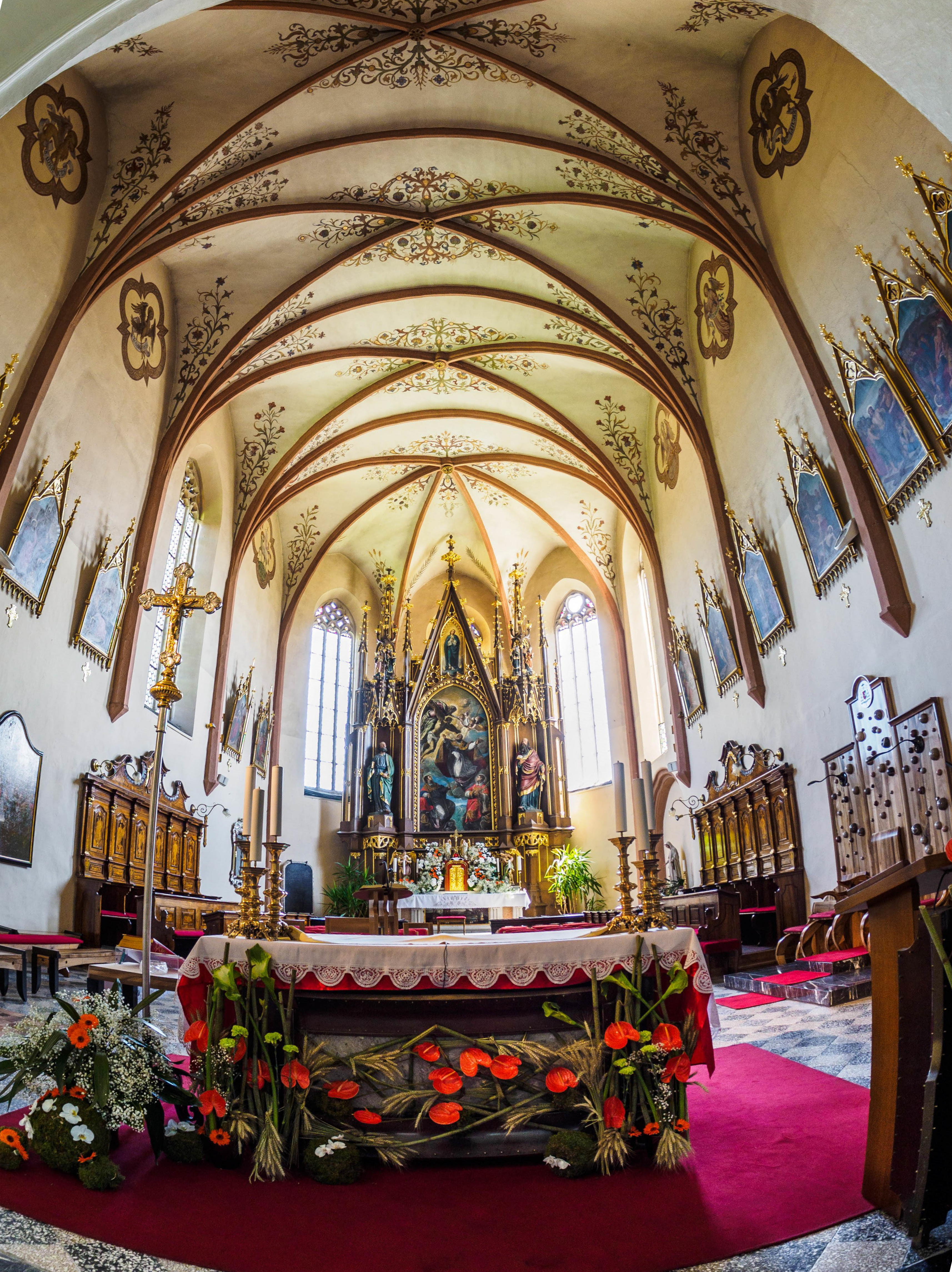 Andreas Manessinger, , Creative Commons BY-SA